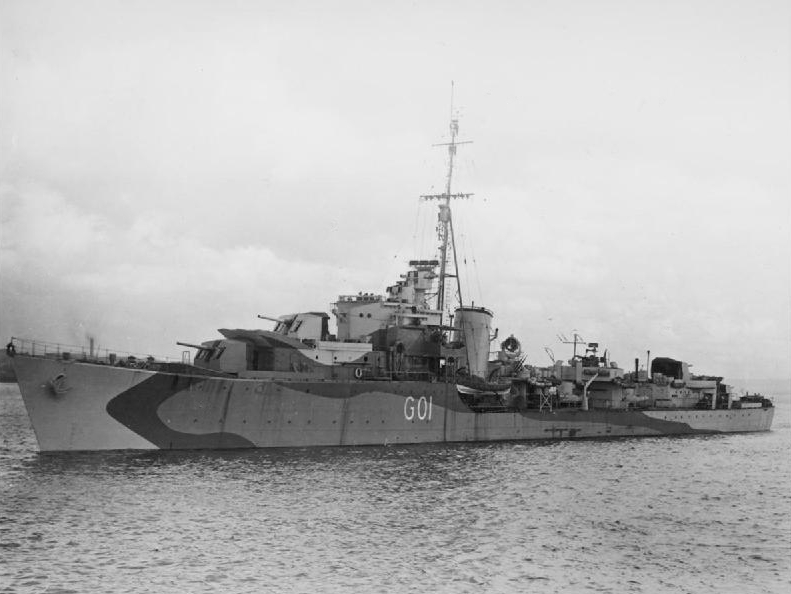 The Royal Navy destroyer HMS Scourge (G01) underway in coastal waters, circa in 1943. Note:The file is named "HMS Evertsen", but Scourge became the Dutch Evertsen only in 1946.